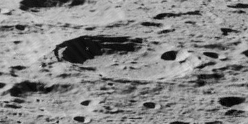 Oblique view of Schjellerup, on the far side of the moon, facing west.